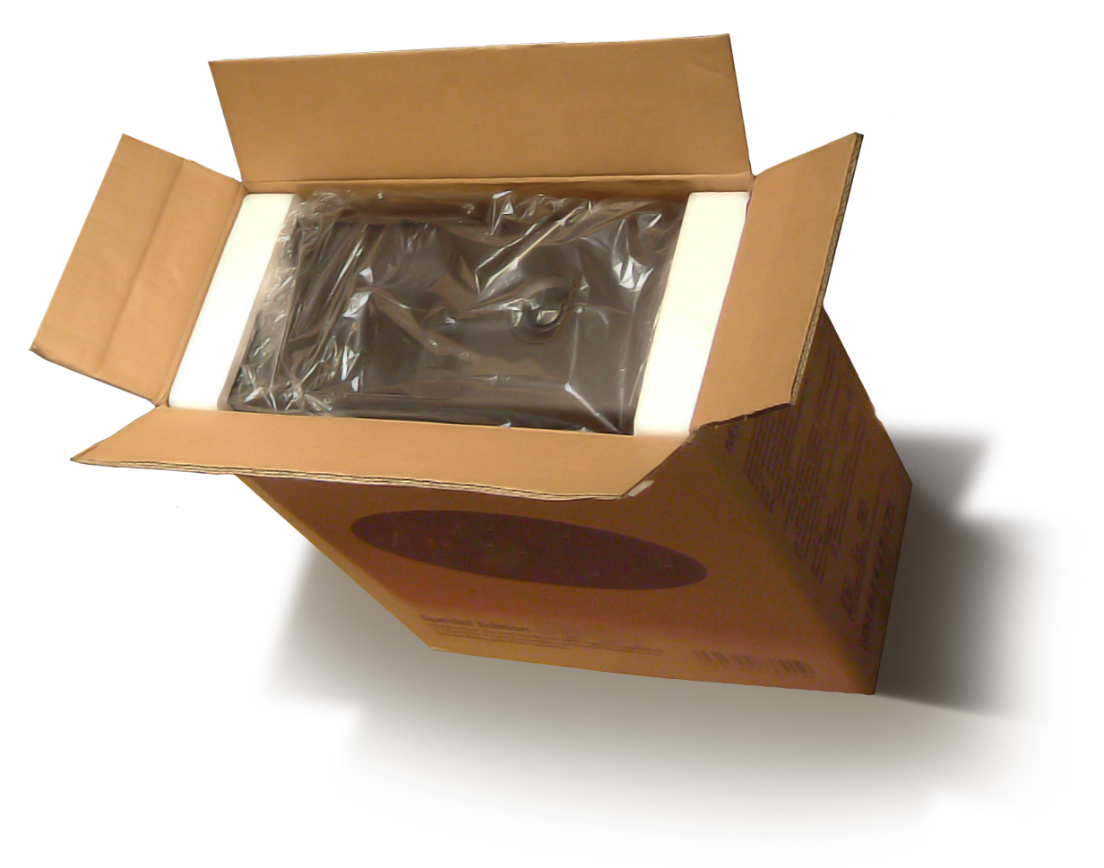 Photograph of a well-packed computer inside its brown cardboard box, with polystyrene inserts and plastic wrapping.